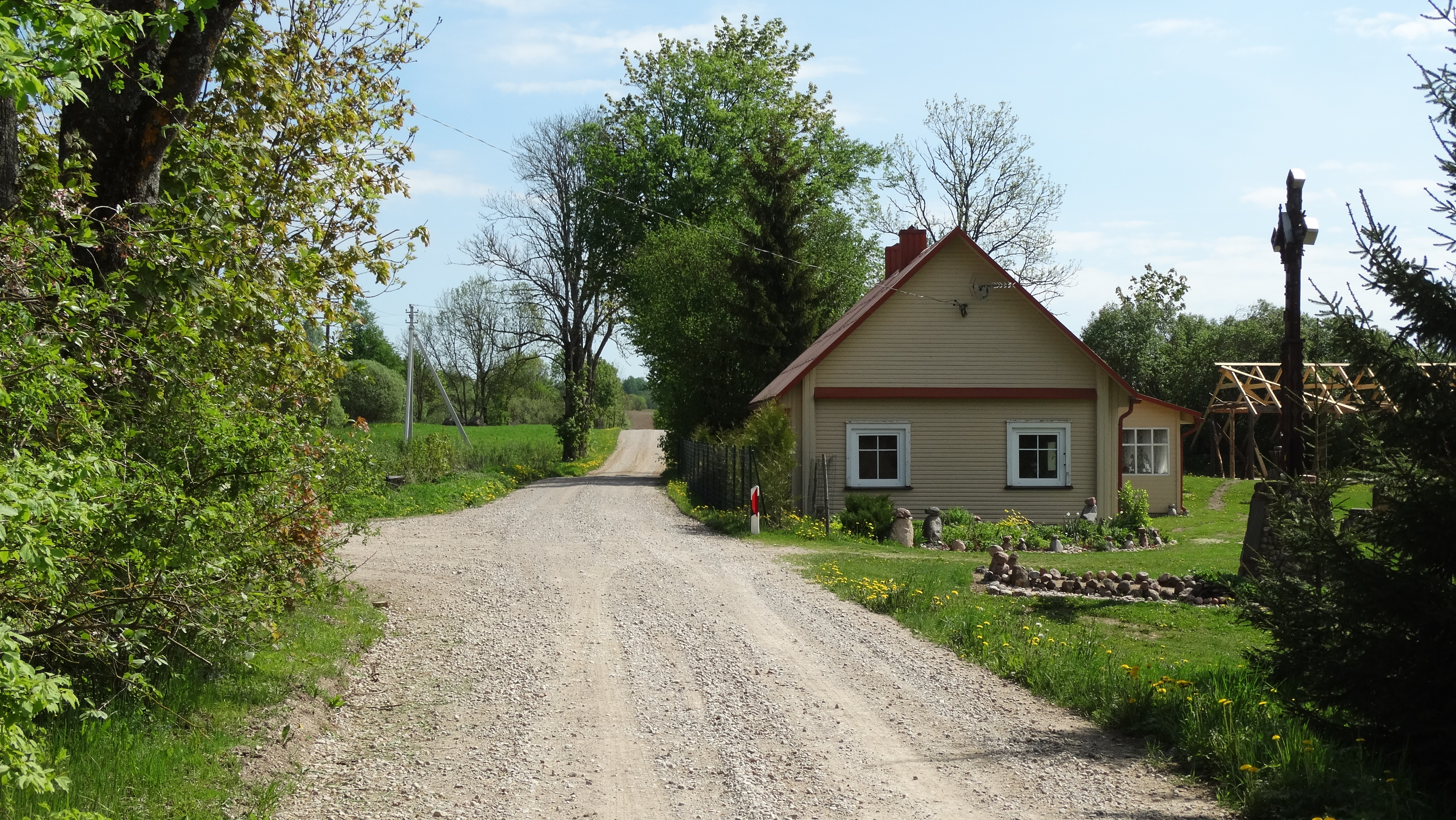 Voversys, Anykščiai District, Lithuania